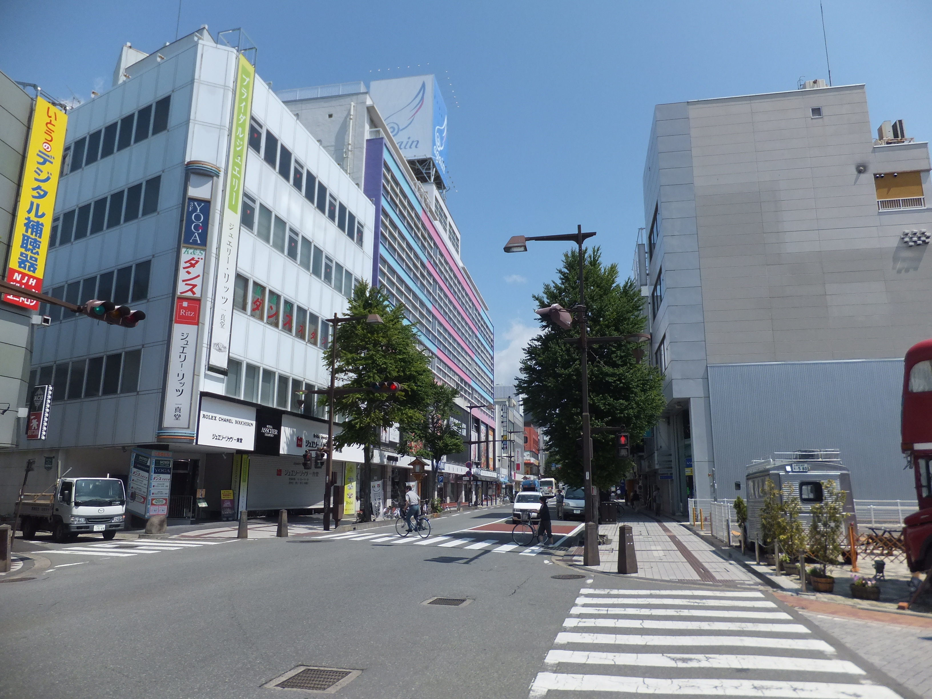 Chuo Street is an avenue in Nagano City that runs north and south and that is an approach to the Zenkō-ji.